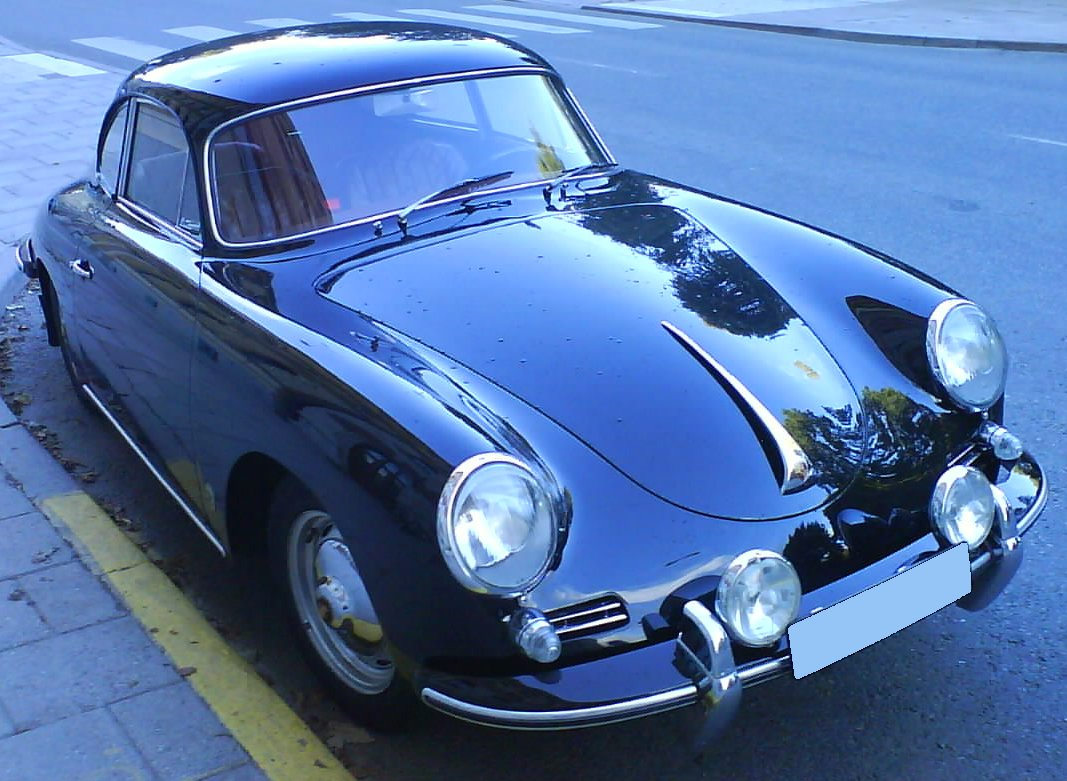 Porsche 356, front right view